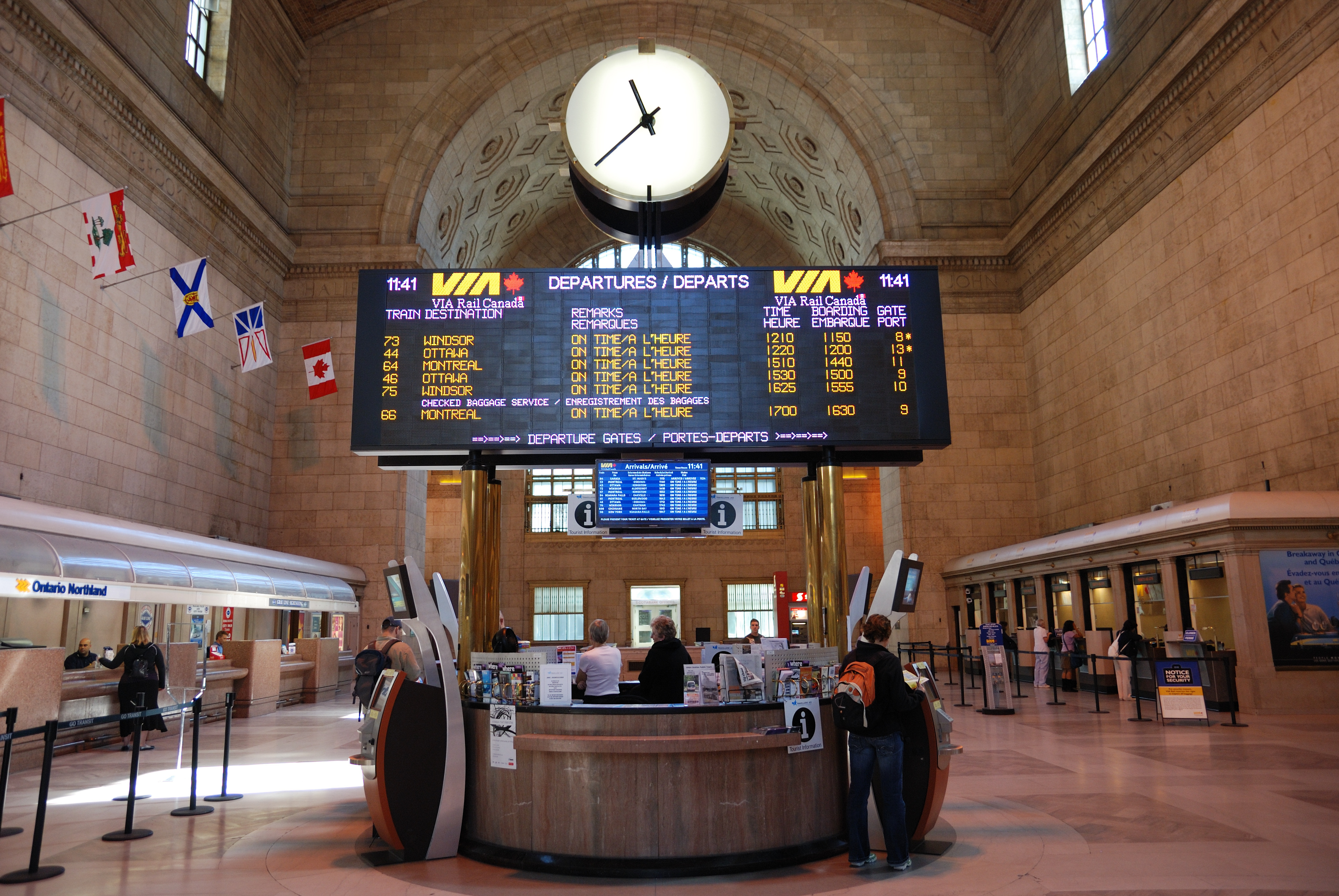 Toronto Union Station interior